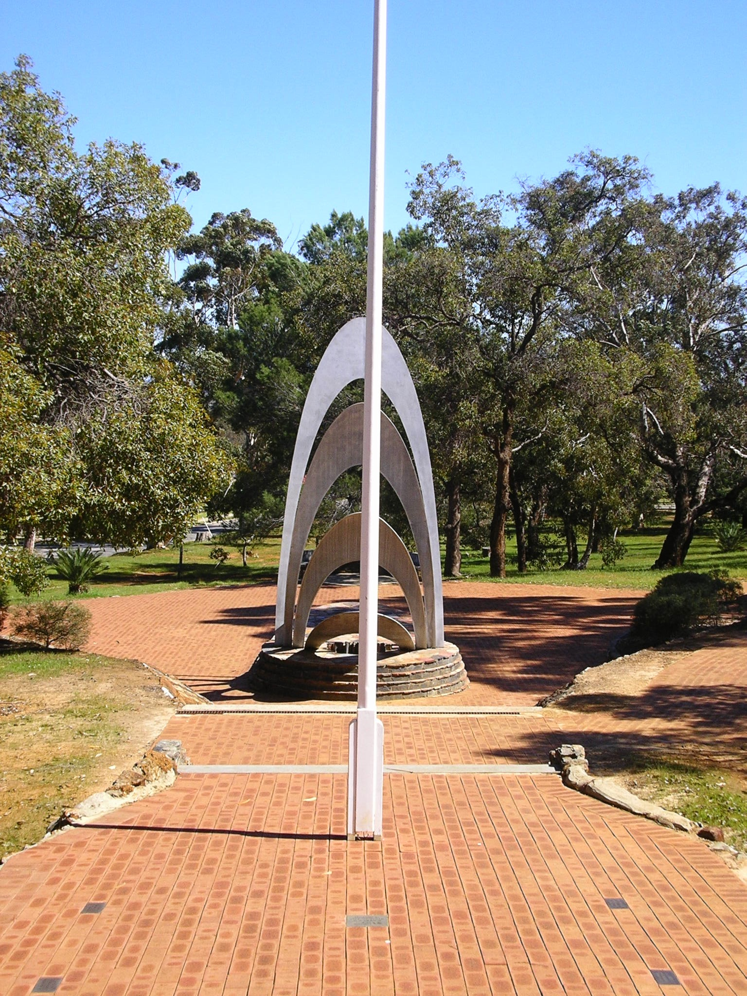 Monument structure at Blackboy Hill memorial site, Greenmount,Western Australia